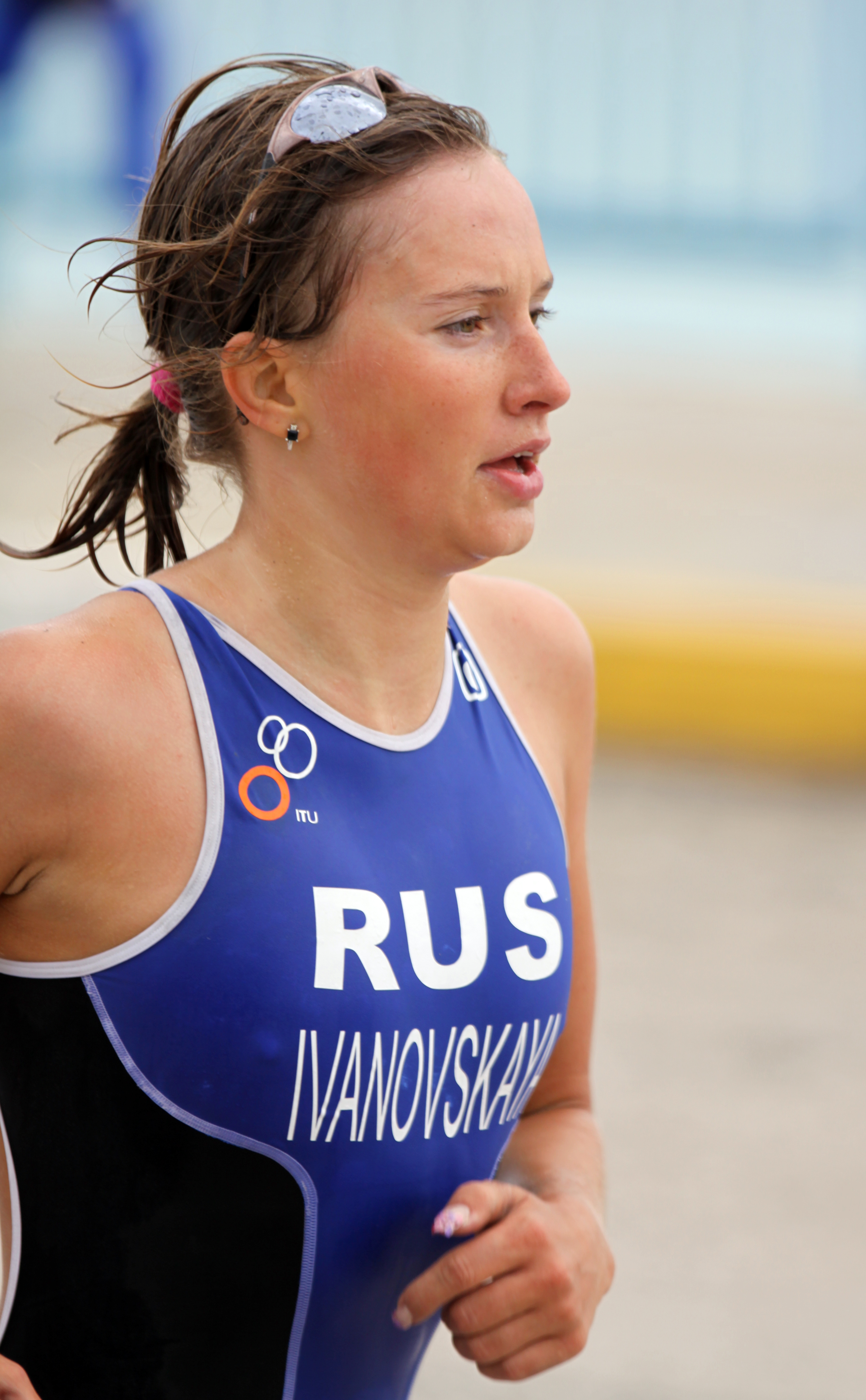 Lyobov Ivanovskaya (Любовь Андреевна Ивановская) at the European Cup triathlon in Antalya 2011.